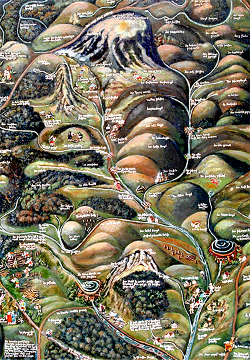 The oldest map of the Karkonosze Mountains.